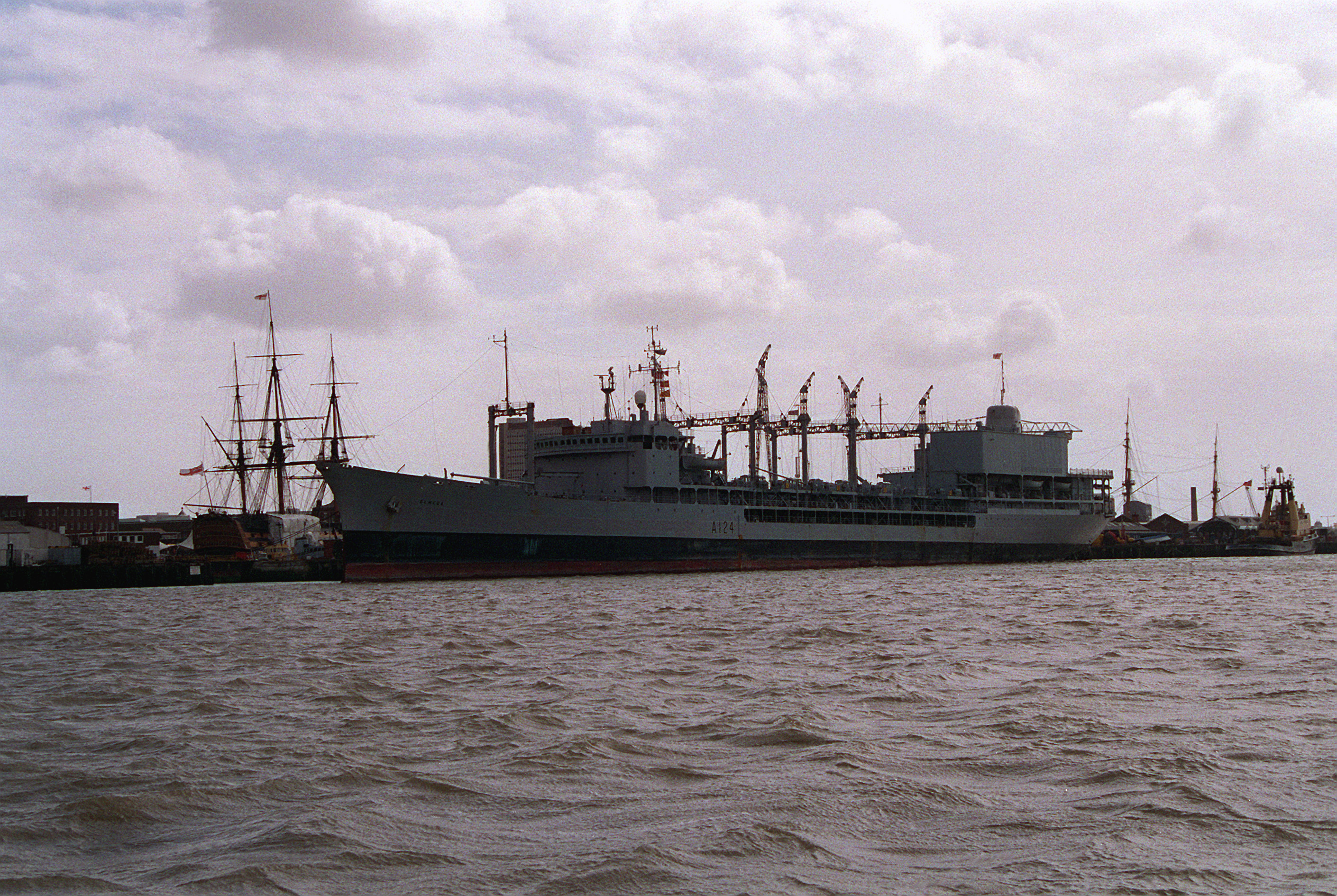 The decommissioned British Olwen-class fleet oiler RFA Olmeda (A124) tied up to the jetty at the Portsmouth Naval Base, Hampshire (UK), on 31 March 1994. To the left, behind the bow of Olmeda, is Lord Nelson's historic flagship, HMS Victory, upon which the Admiral was killed at the Battle of Trafalgar in 1805.